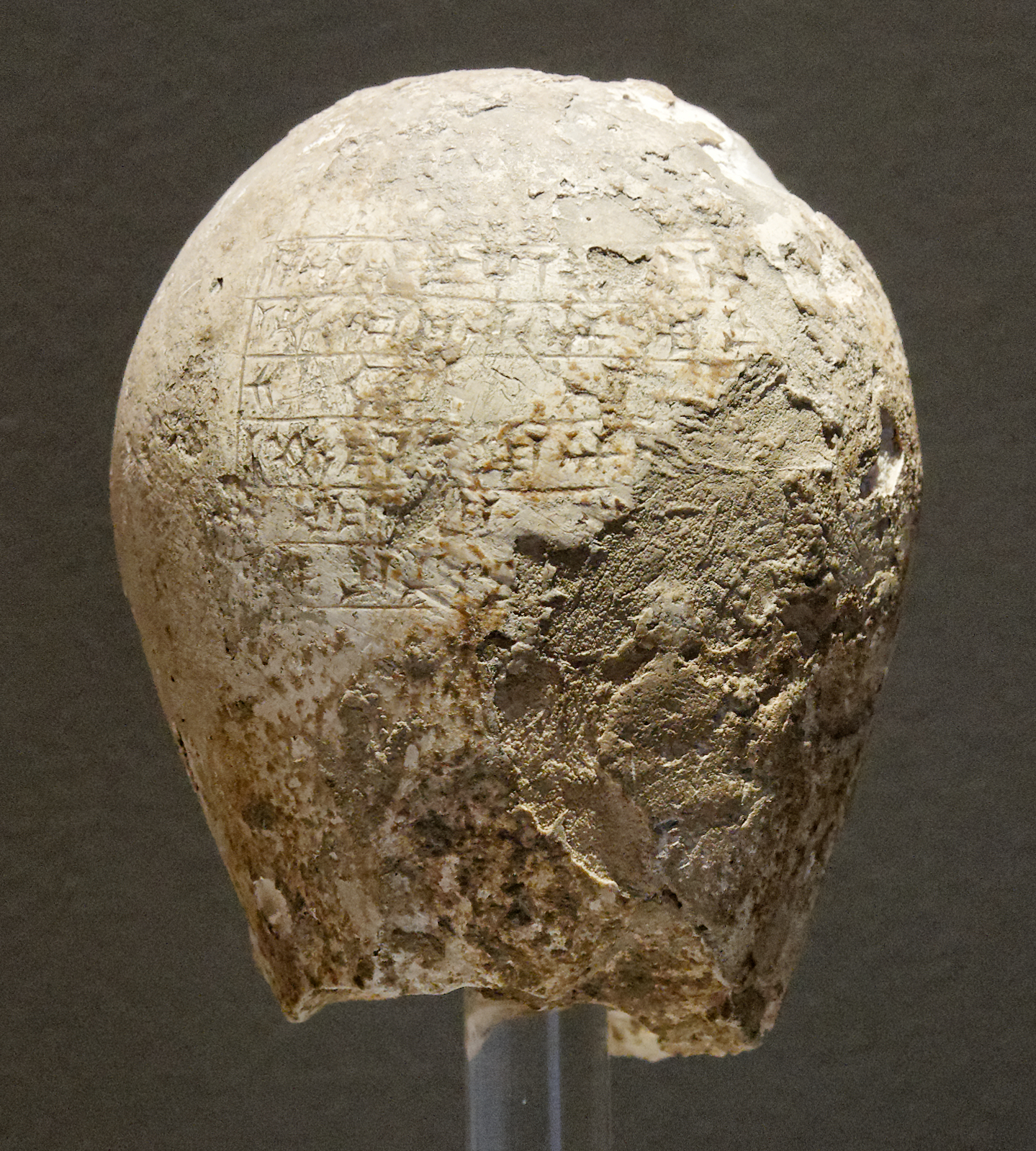 Mace with the name of Tukulti-Ninurta I, Kassite period.